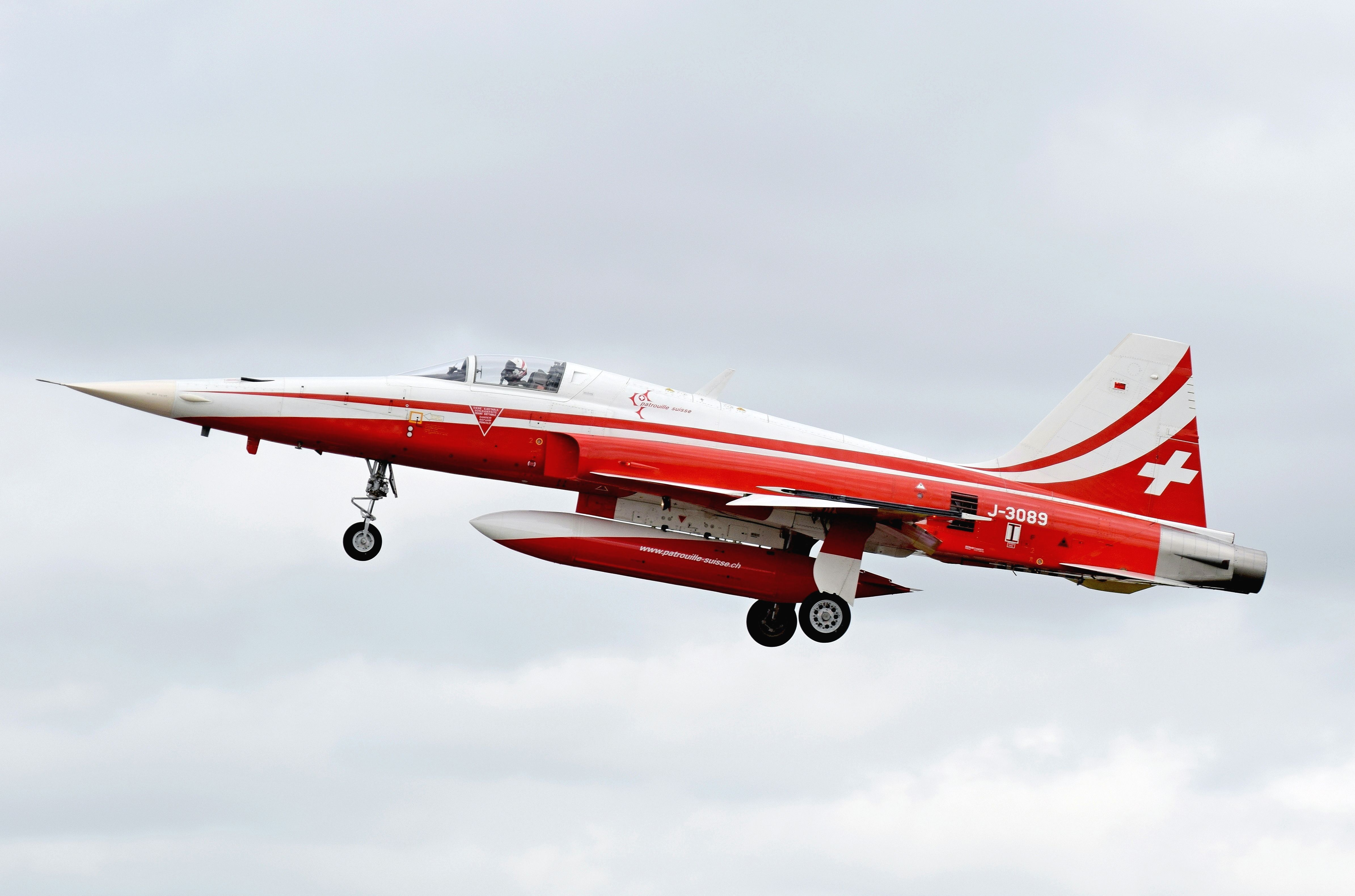 Northrop F-5E Tiger II of the Swiss Air Force arrives at the 2016 Royal International Air Tattoo, RAF Fairford, England.